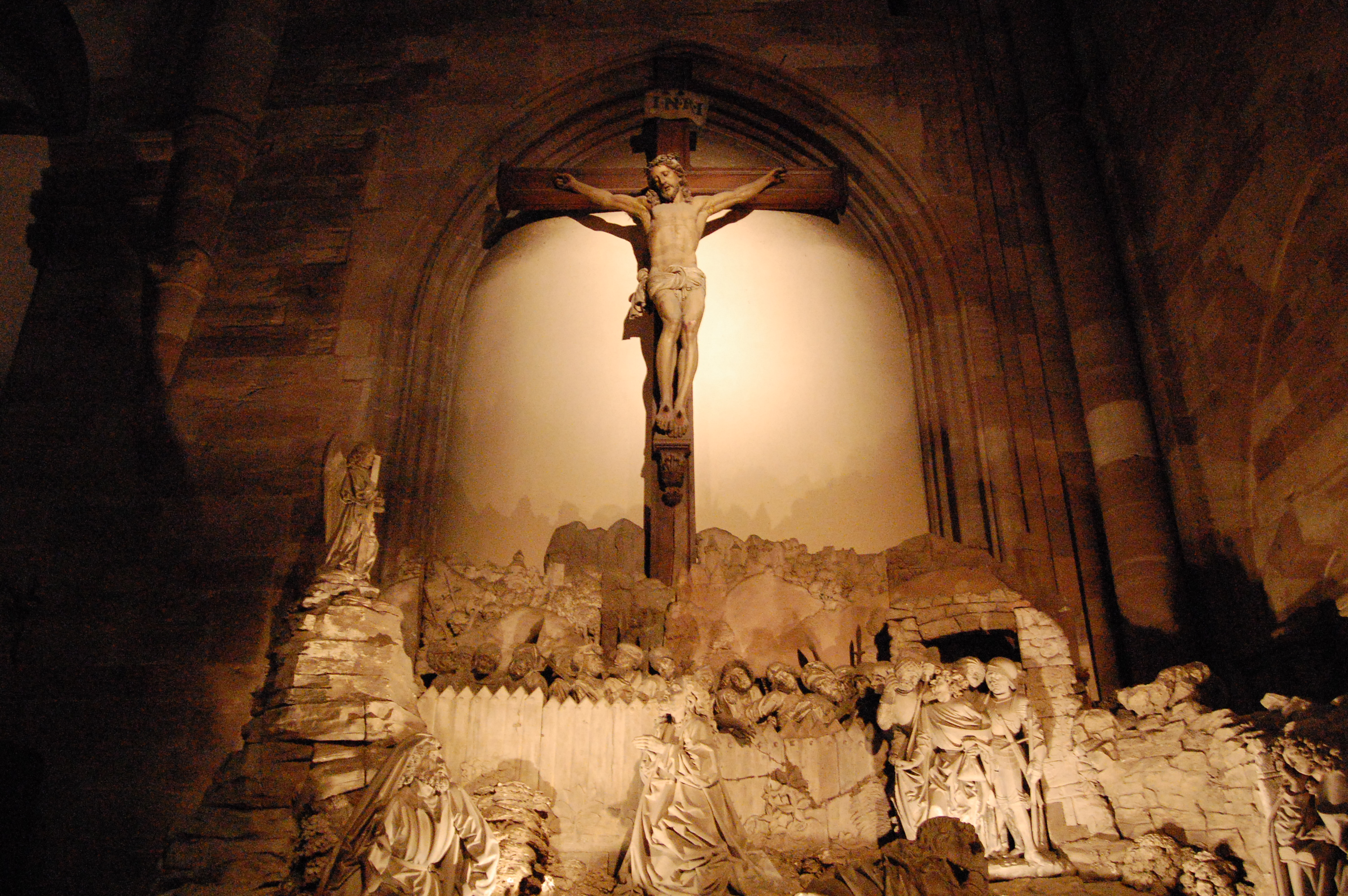 Inside Cathedrale Notre Dame in Strasbourg